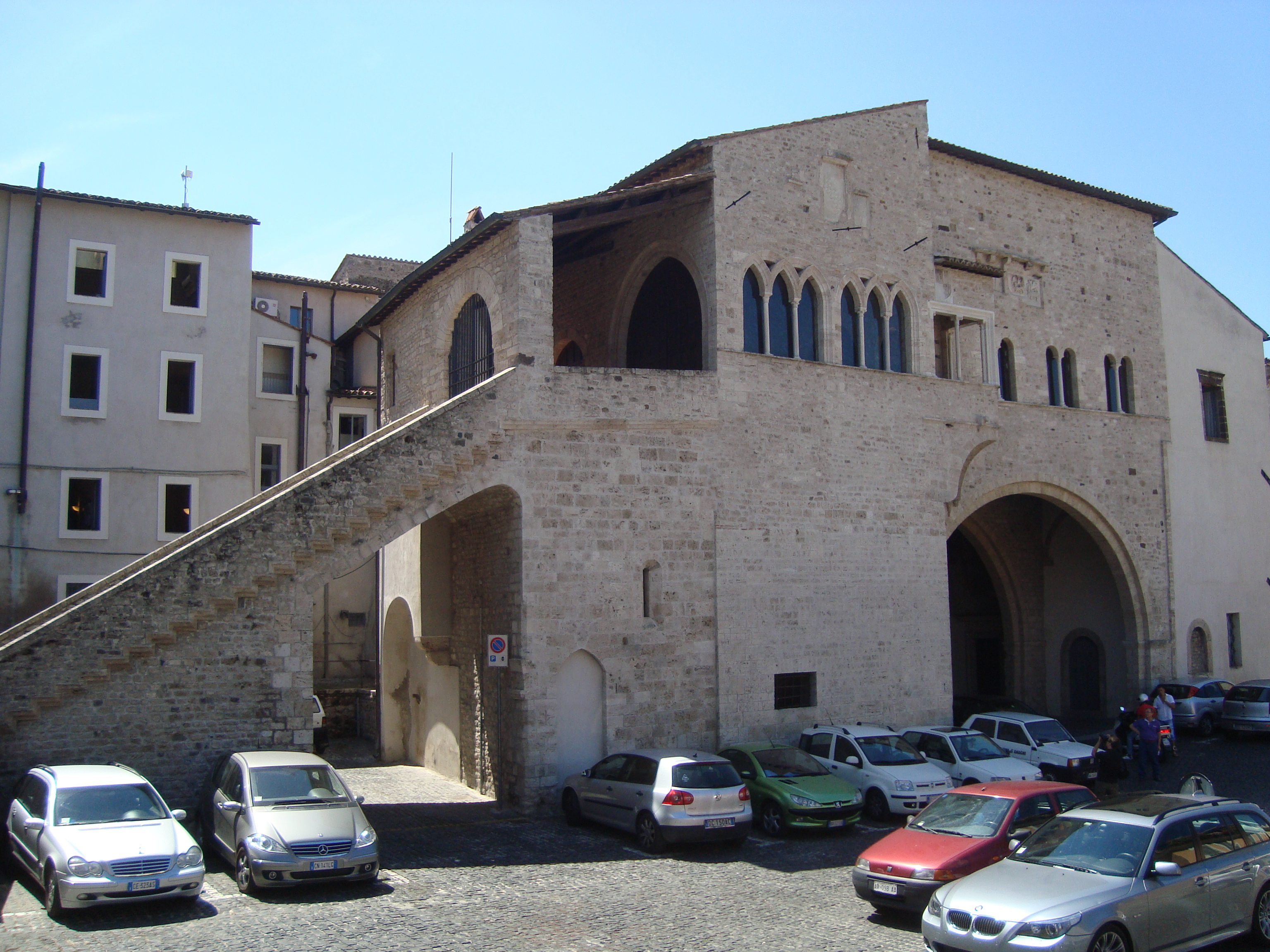 The Palazzo della Ragione in Anagni, Italy